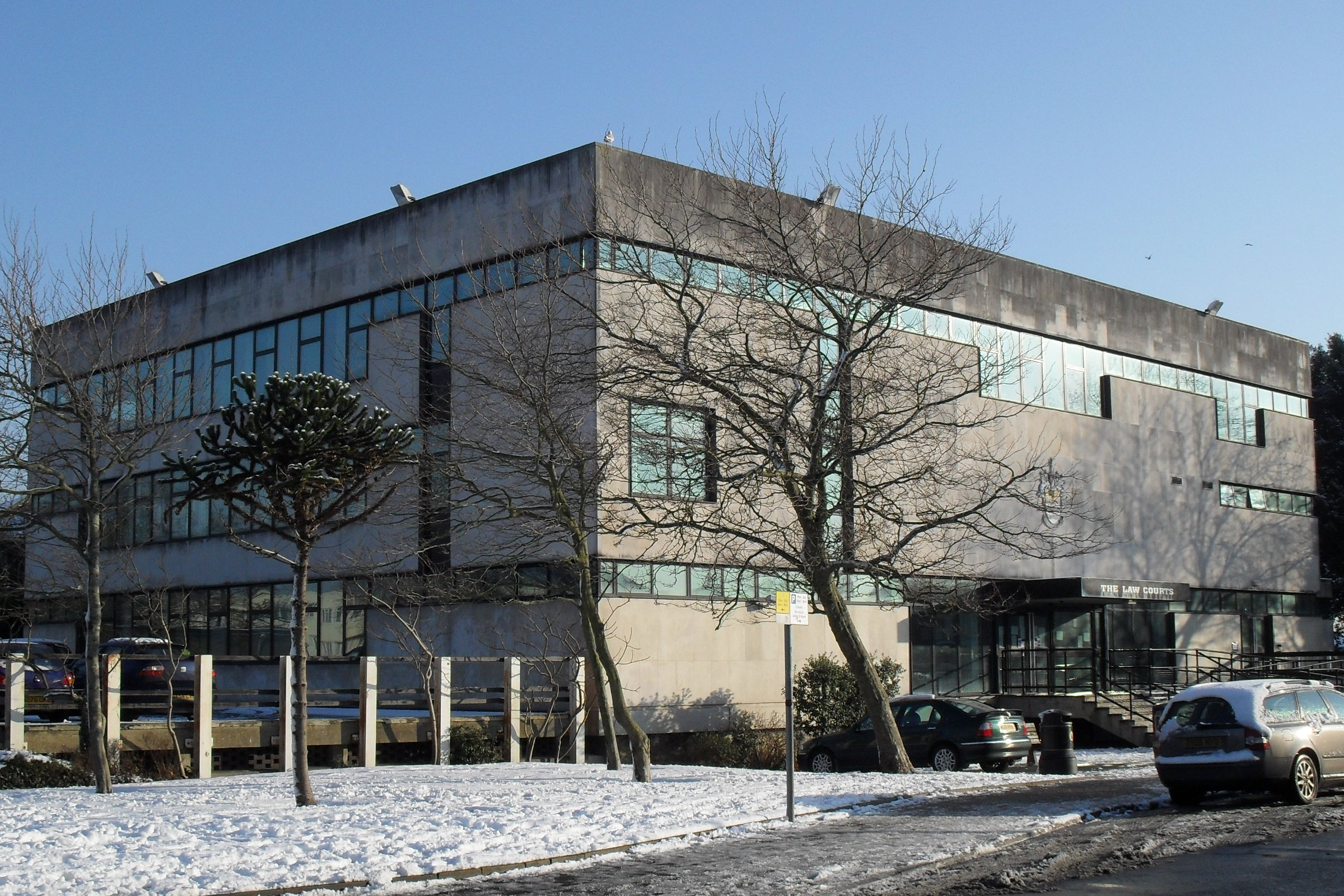 Worthing Magistrates' and County Court, Christchurch Road, Worthing, West Sussex, England. Designed by Frank Morris and built in 1967.